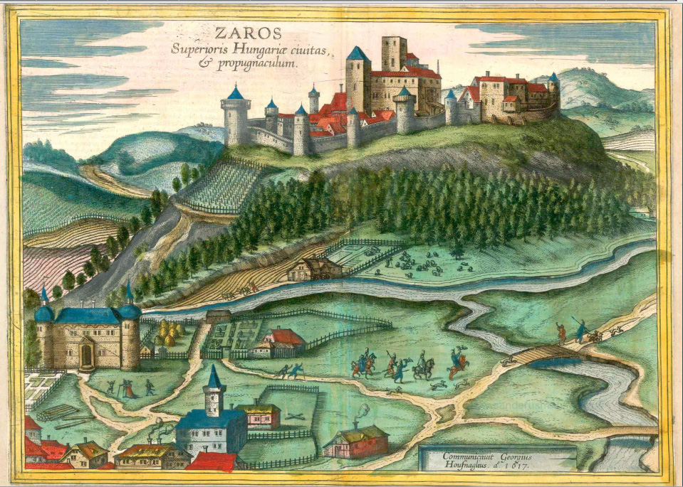 "Zaros Superioris Hungariae Civitas". Signed Georg Hoefnagel 1617 (edition 1618) comes from "Theatri praecipuarum totius Mundi Liber Sextus Urbium Anno MDCXVIII" by Georg Braun and Franz Hogenberg